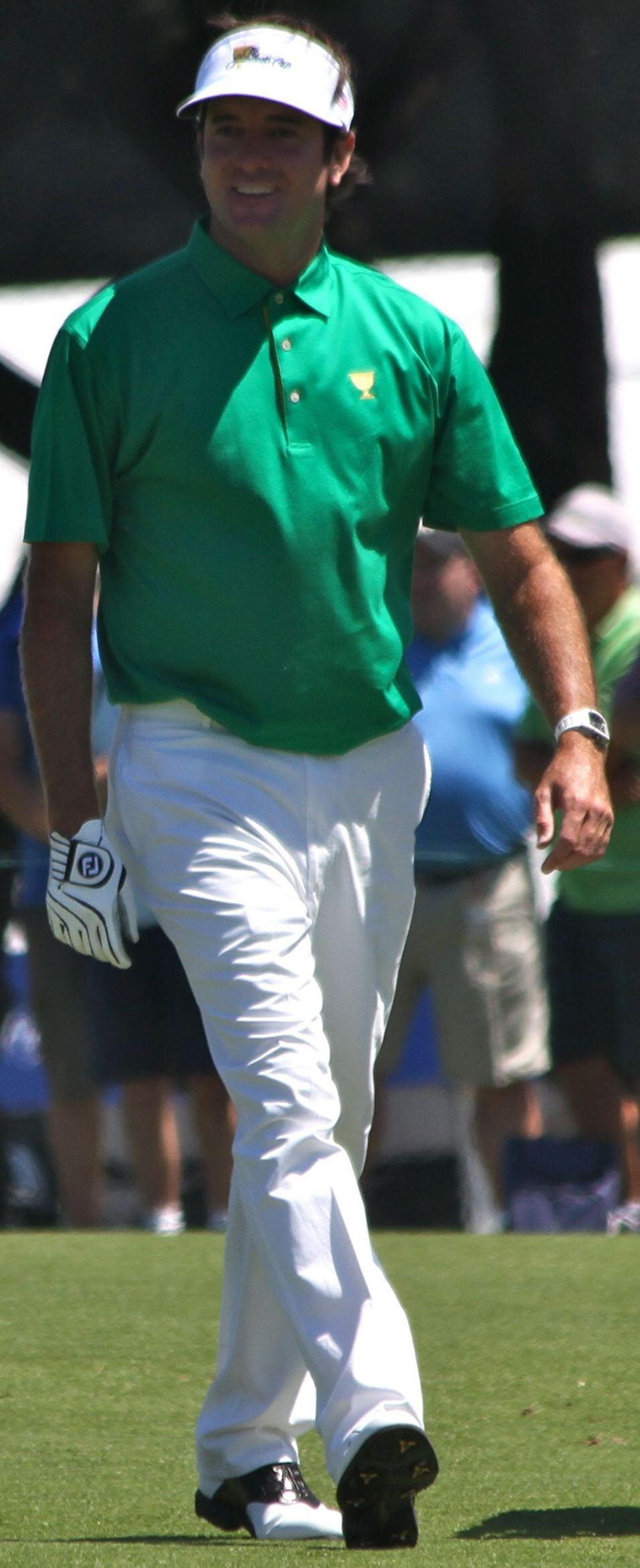 Bubba Watson at the 2011 Presidents Cup during a practice round on 15 November.